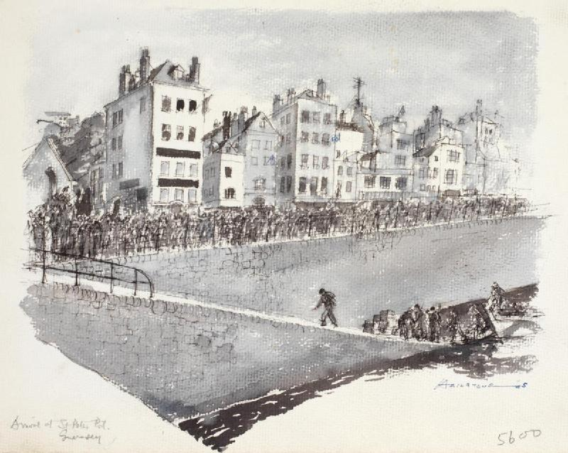 Arrival at St Peter Port, Guernsey - May 1945 image: The quayside is lined with crowds greeting British soldiers who are disembarking from a boat at the end of the slipway below.